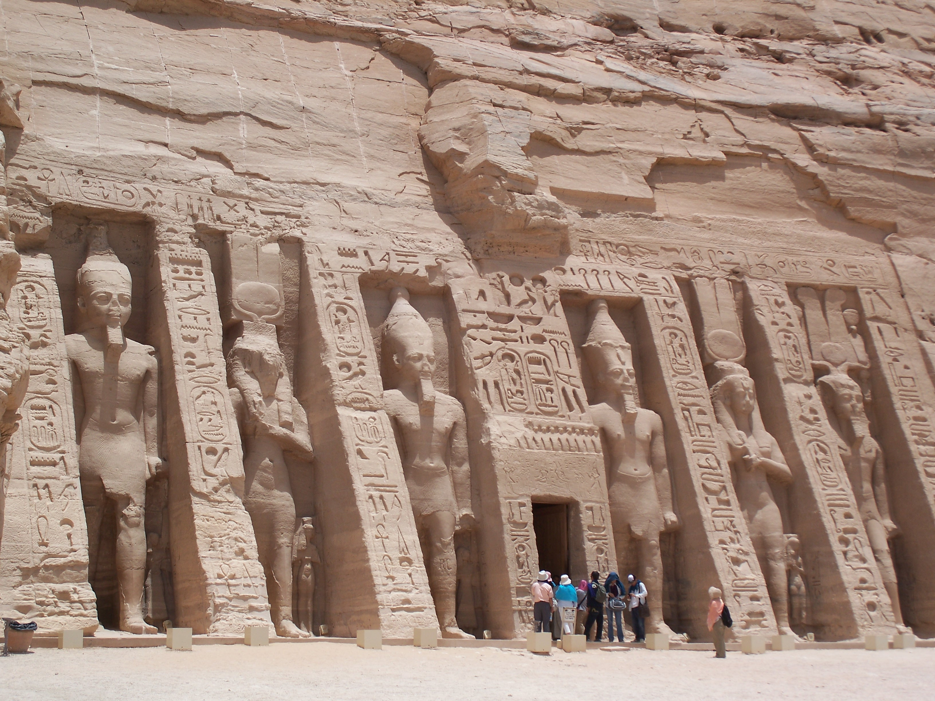 Nefertari's Temple at Abu Simbel. Taken by myself. May 30, 2007.